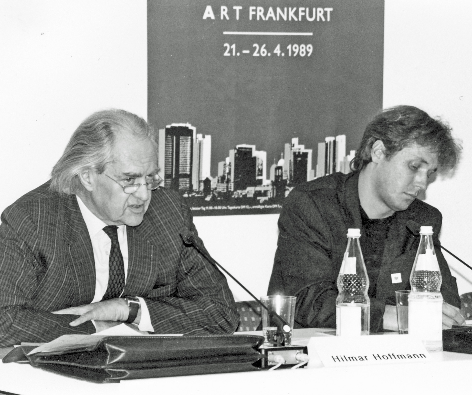 Hilmar Hoffmann left, with Bodo Sperling at the panel discussion at the opening of the first art fair ART in Frankfurt a / M. 1989